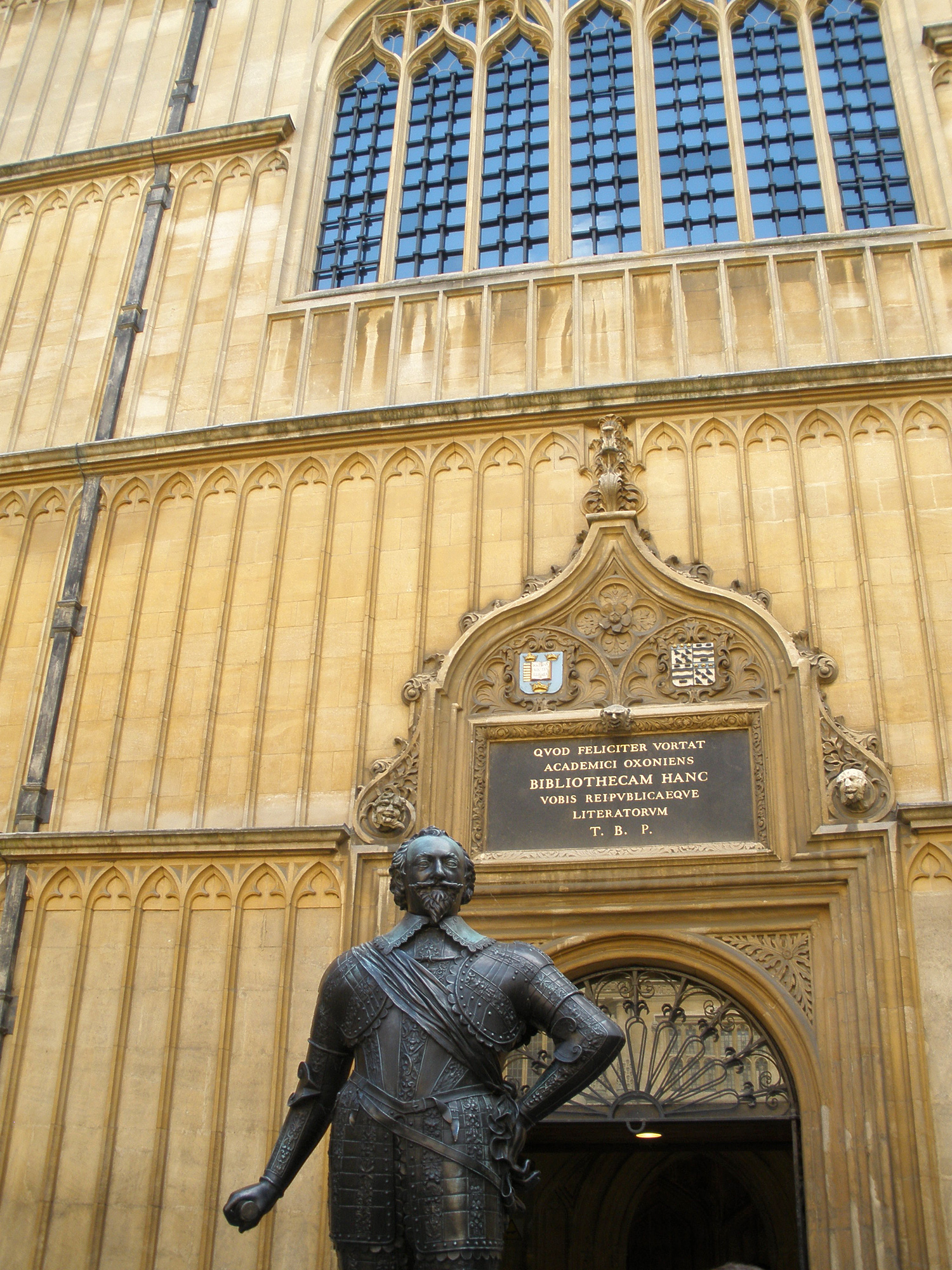 Bodleian Library in Oxford, England